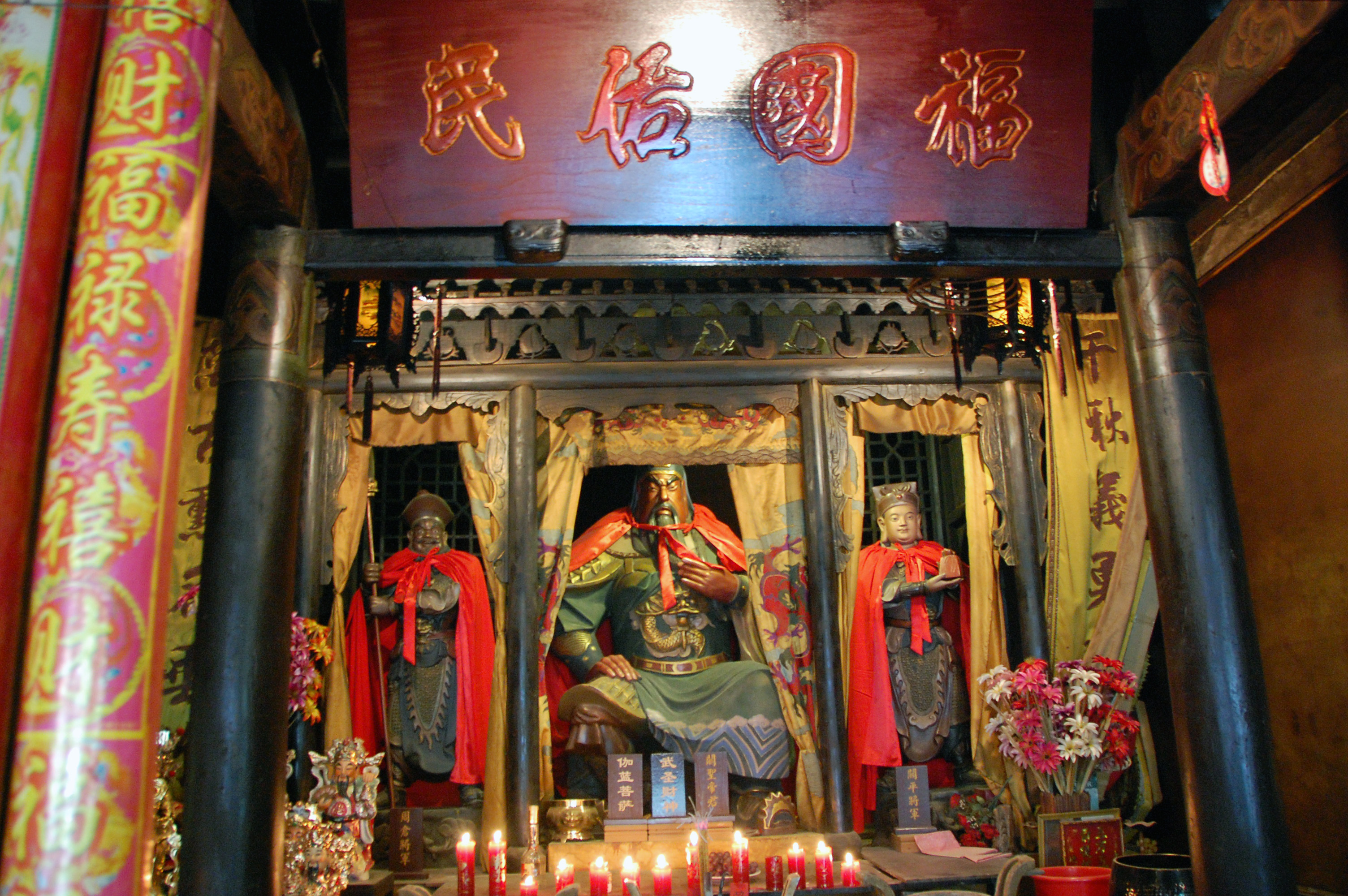 Altar to Guandi inside the Temple of Guandi in Jinan, Shandong, China.